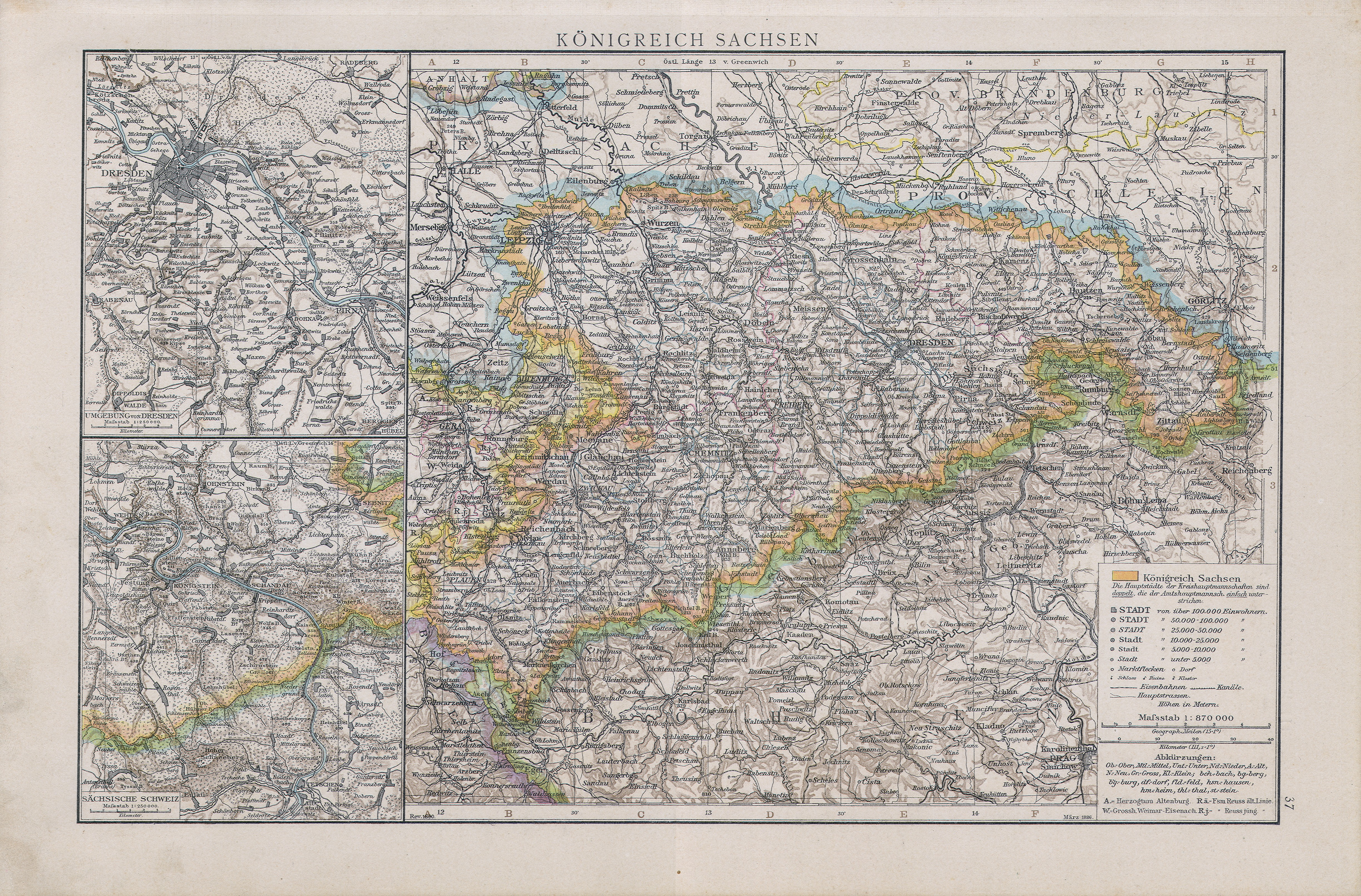 Map of Saxony, 1890